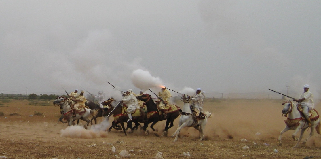 Fantasia in Benidrar(Near Oujda). July 7 2010 Morocco